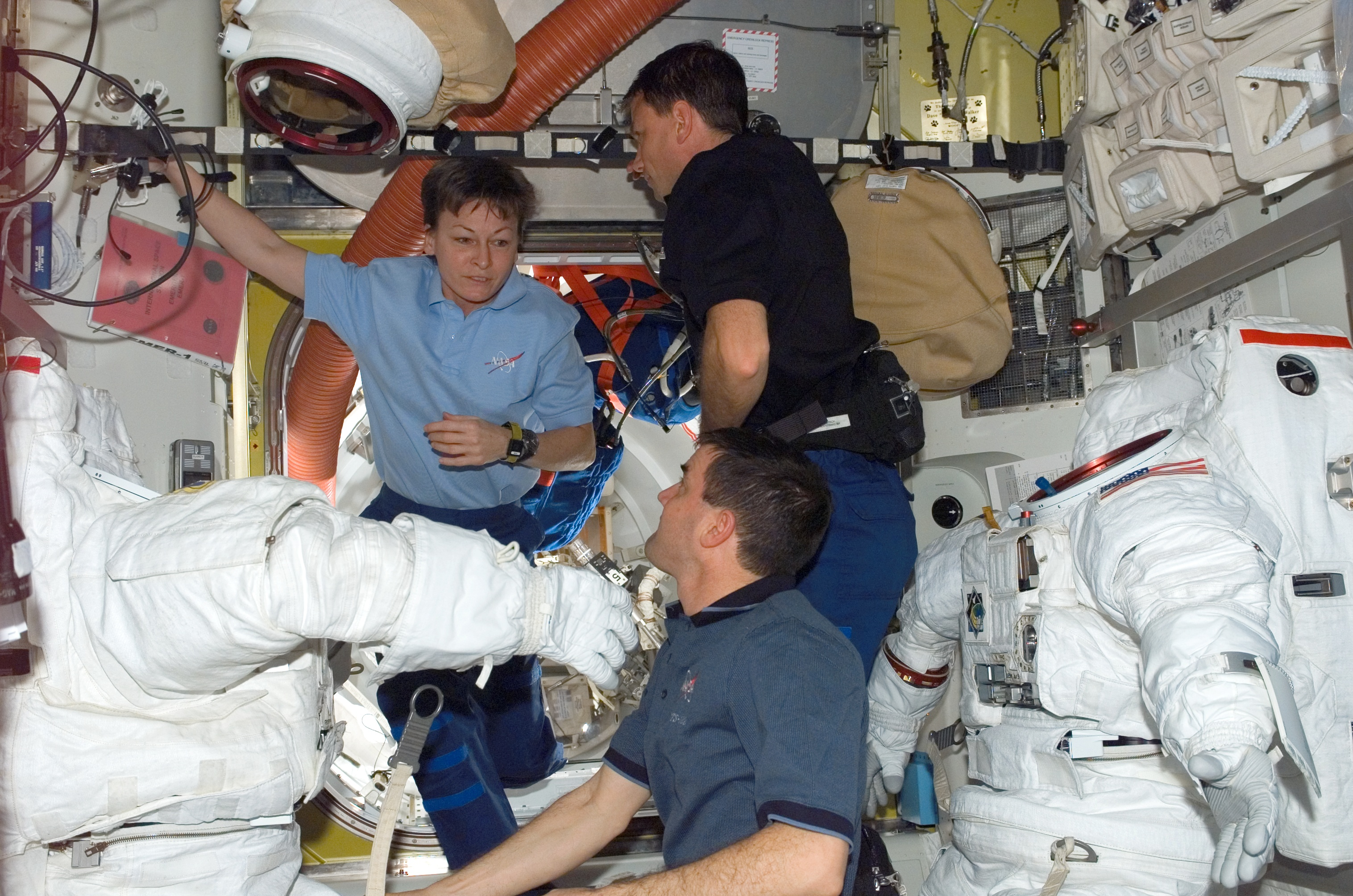 Astronauts Peggy Whitson, Expedition 16 commander; Stanley Love and Rex Walheim (bottom), both STS-122 mission specialists, work in the Quest Airlock of the International Space Station while Space Shuttle Atlantis is docked with the station. Two Extravehicular Mobility Unit (EMU) spacesuits are visible in the image.